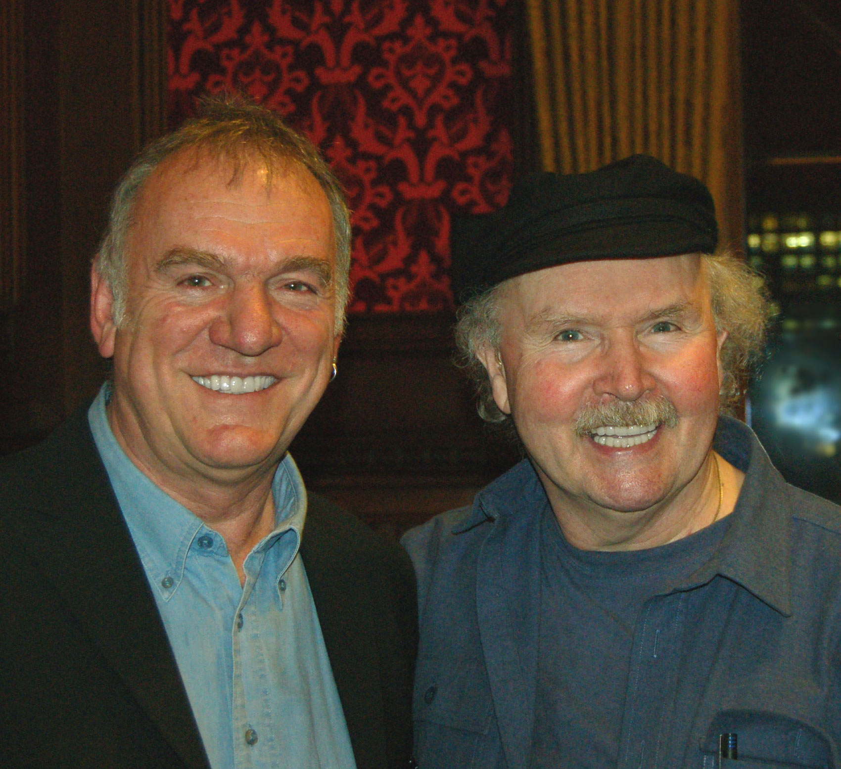 English singer-songwriter Ralph McTell with American folksinger Tom Paxton pictured in the Palace of Westminster when Paxton attended a reception in his honour by British MPs